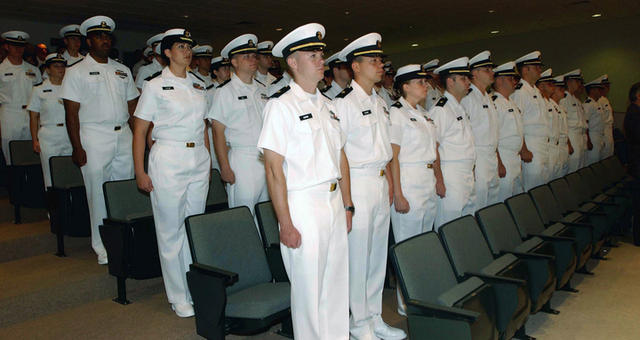 Fifty-nine U.S. Navy (USN) Officer candidates stand at attention during the Seaman to Admiral (STA 21) Naval Science Institute (NSI) program graduation ceremony at Naval Station (NS) Newport. STA-21 is a program that begins the education and training process permitting enlisted USN personnel to become commissioned officers. The candidates will go on to attend their respective university for the next three years earning their degree, before returning to the fleet as naval officers.